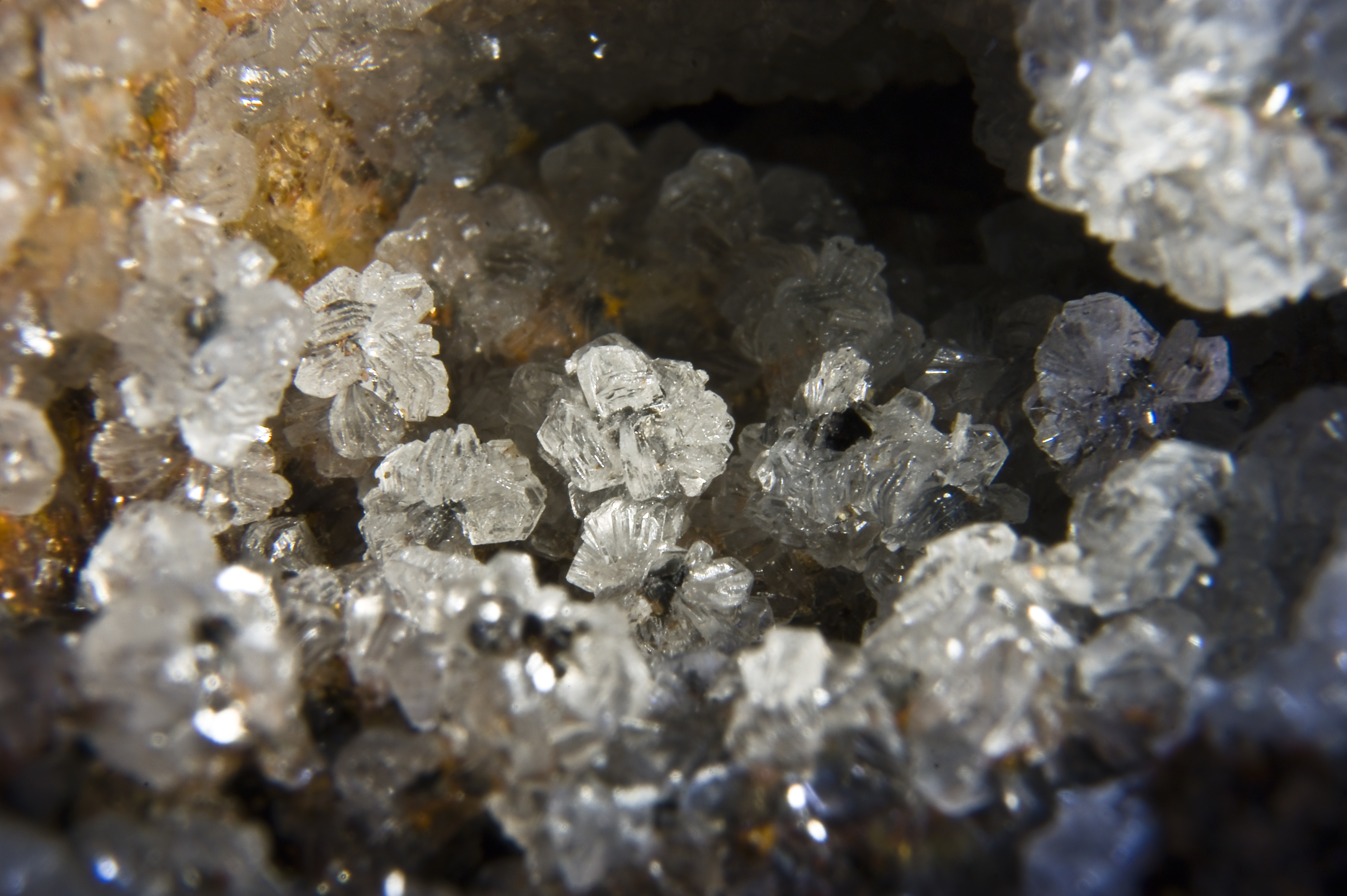 Hemimorphite with Cesàrolite Locality : Germs sur Oussouet, Lourdes, Hautes-Pyrénées, Midi-Pyrénées, France Size : view 1.5cm